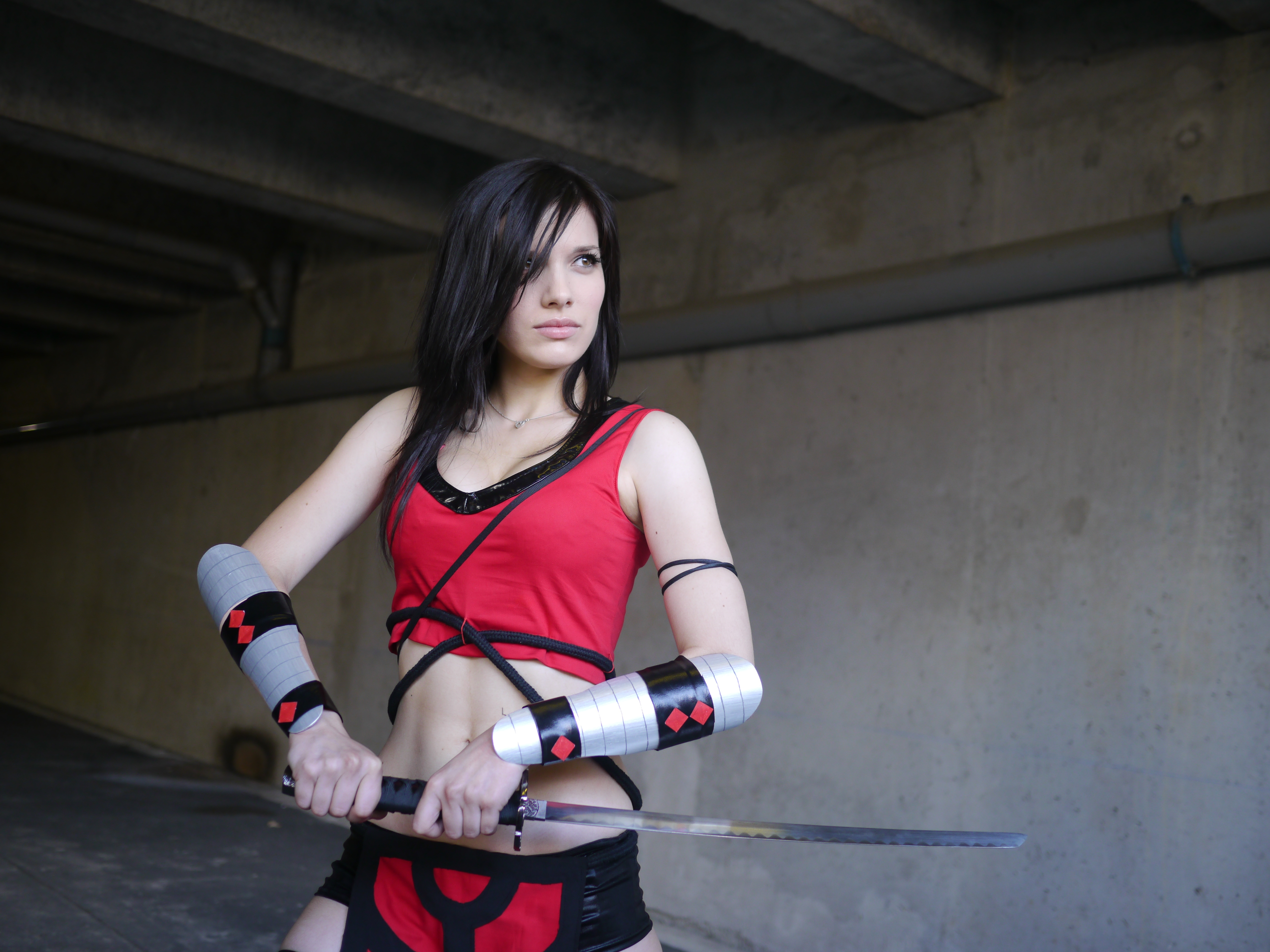 This photo was taken on June 30, 2011 in Seine-St.-Denis, Ile-de-France, FR, using a Panasonic DMC-GH2.